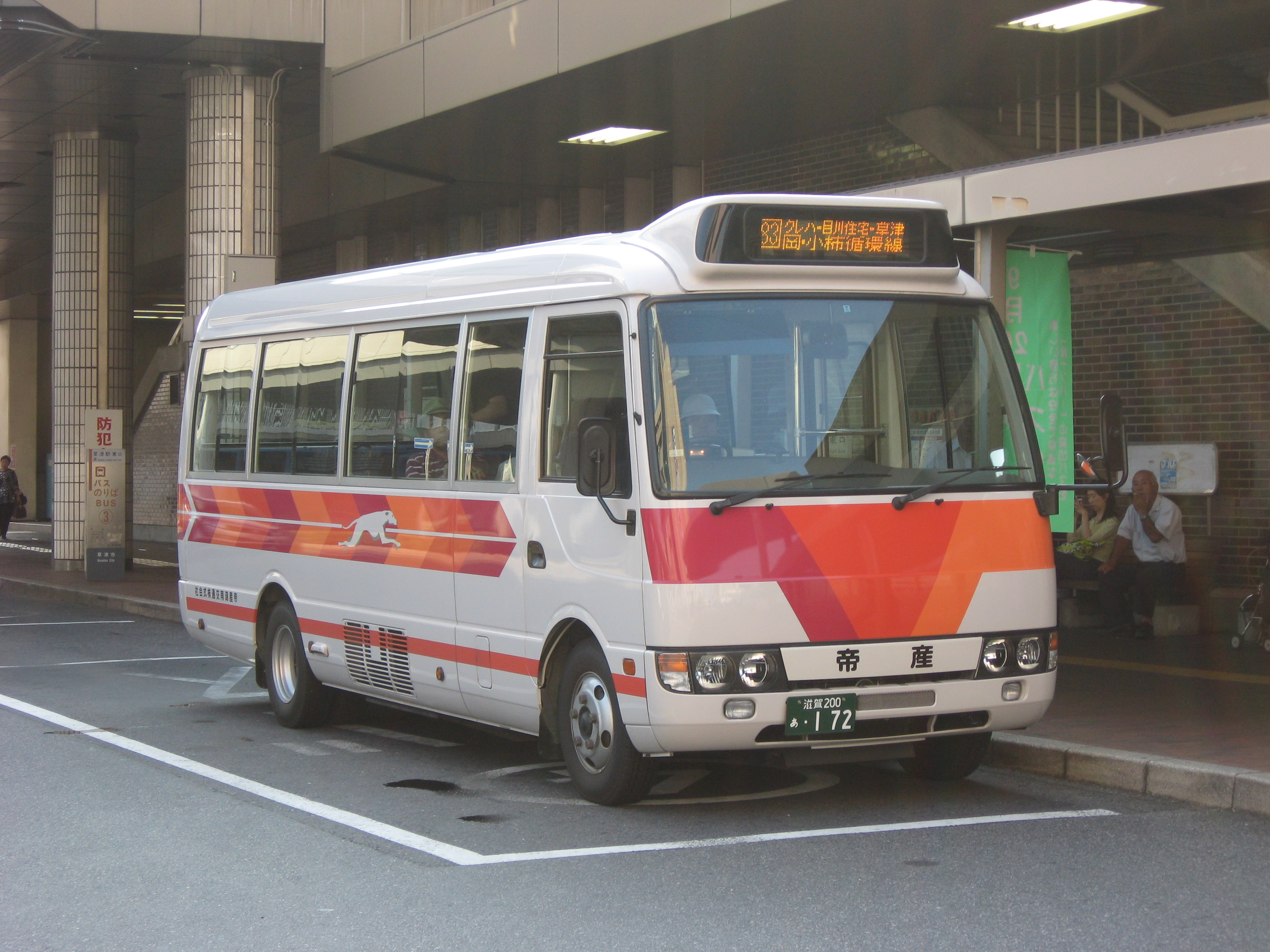 Teisan Konan Kotsu 0172